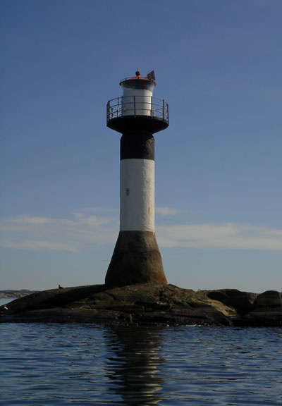 Väcker ligthhouse, Sweden